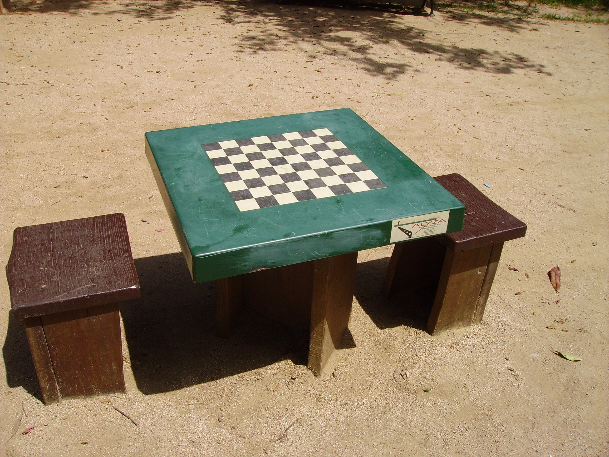 Chess table